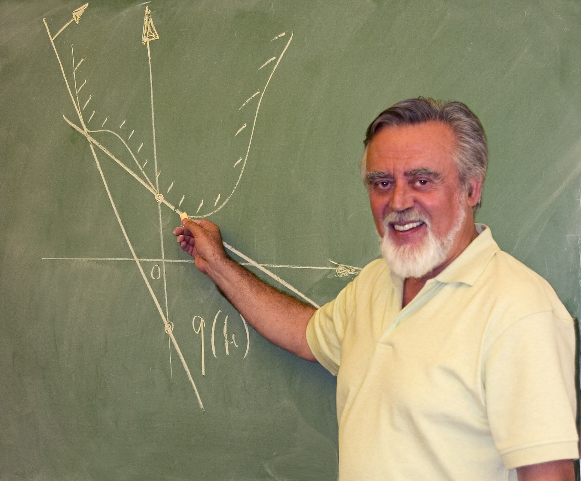 Picture of Prof. Dimitri Bertksekas